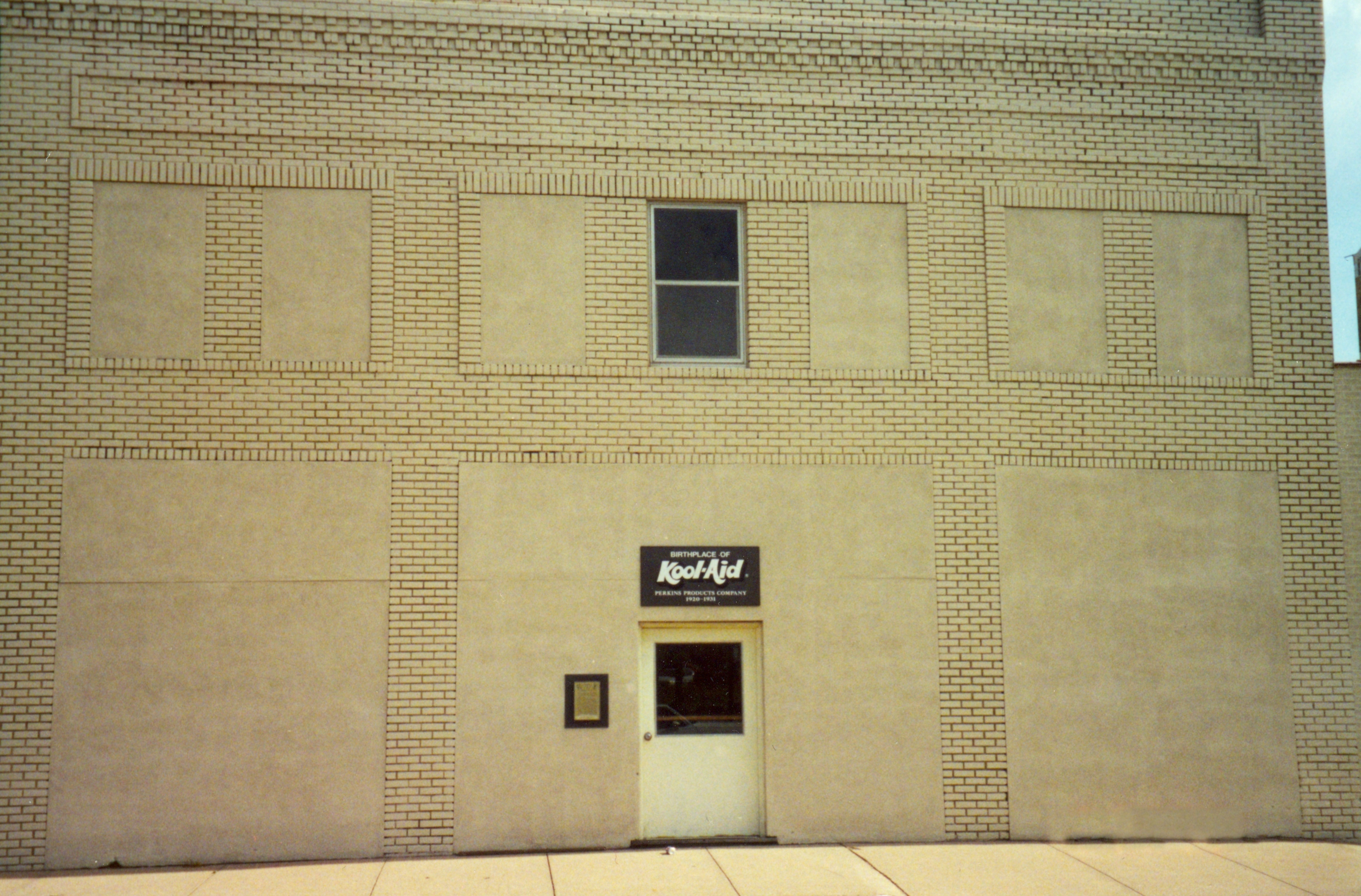 The building where Gerard and Edwin Perkins invented Kool-Aid. Located at 518 W. 1st St. in Hastings, Nebraska